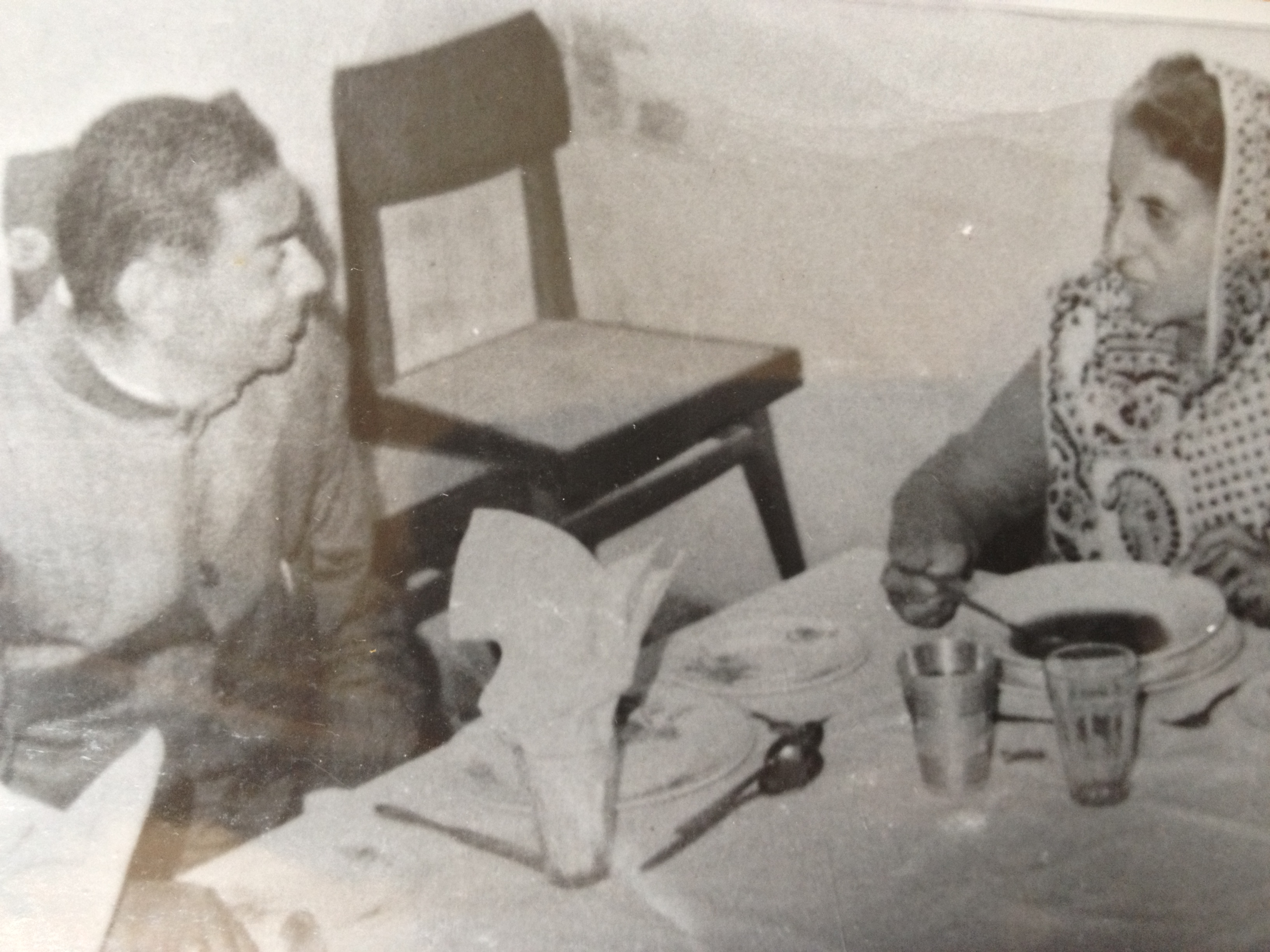 Late Shri Har Narain Singh with Late Shrimati Indira Gandhi.